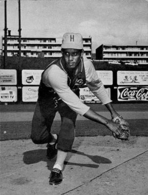 Professional baseball player Diego Segui